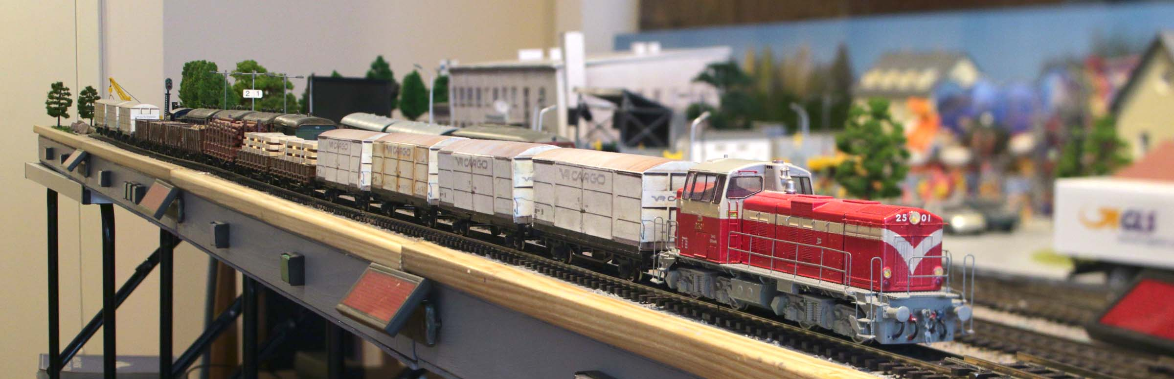 Using a tilt-lens adapter in order to achieve focus over the whole length of the model train. Other information Publication outside Wikimedia must attribute: Photo by J-E Nyström, Helsinki, Finland